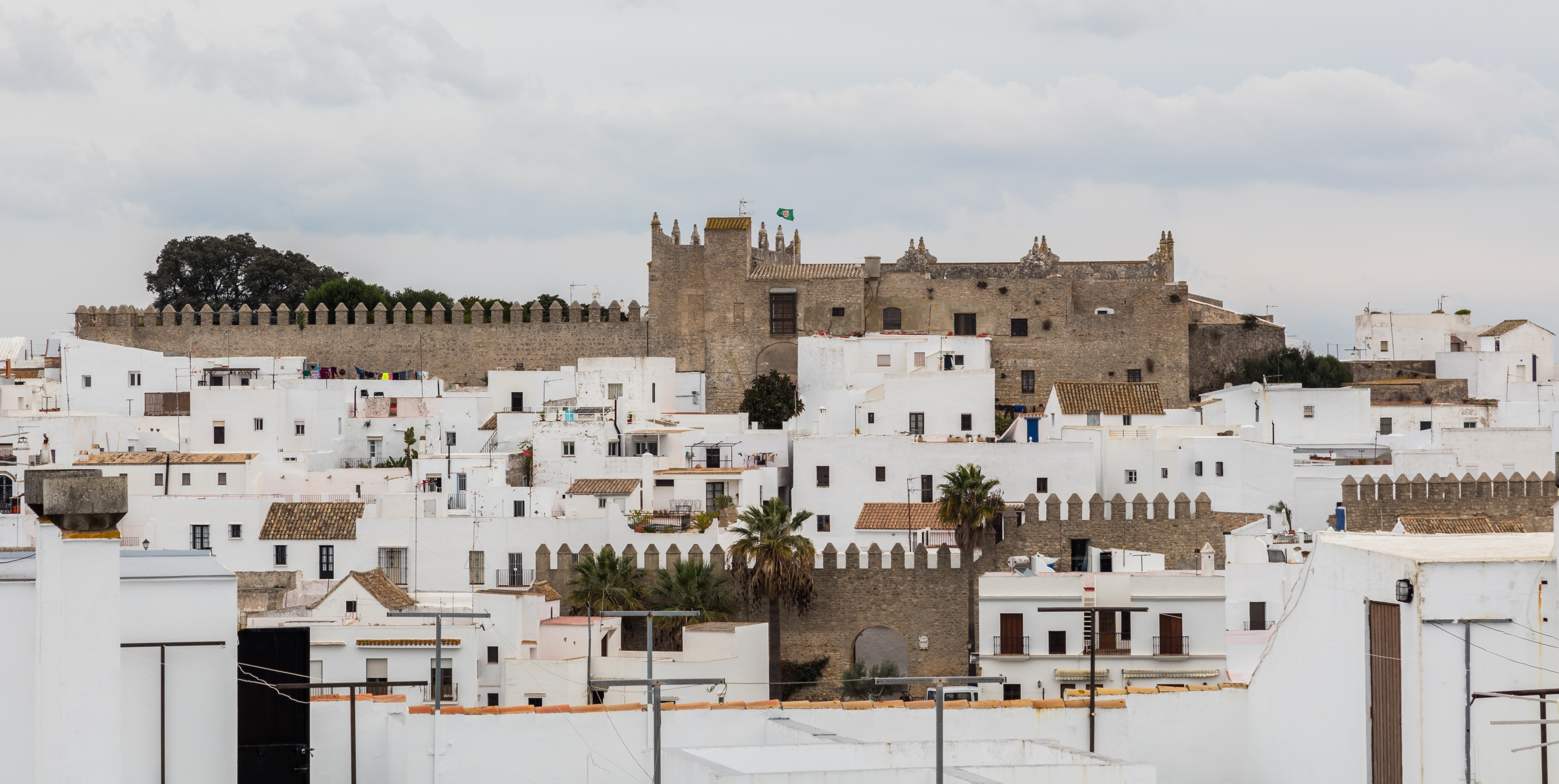 Castle of Vejer de la Frontera, Cádiz, Spain